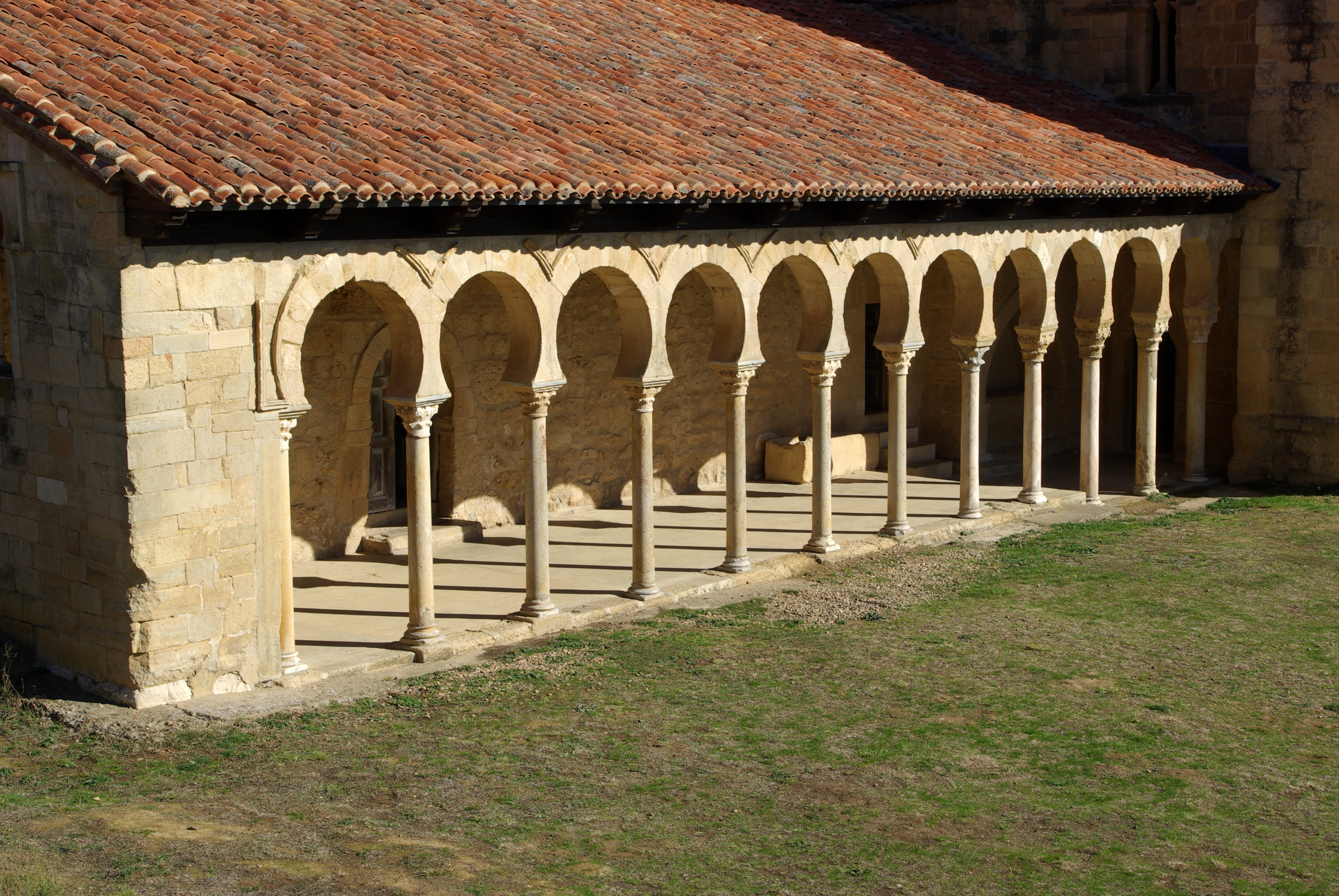 Monastery of San Miguel de Escalada, Gradefes (León, Spain).